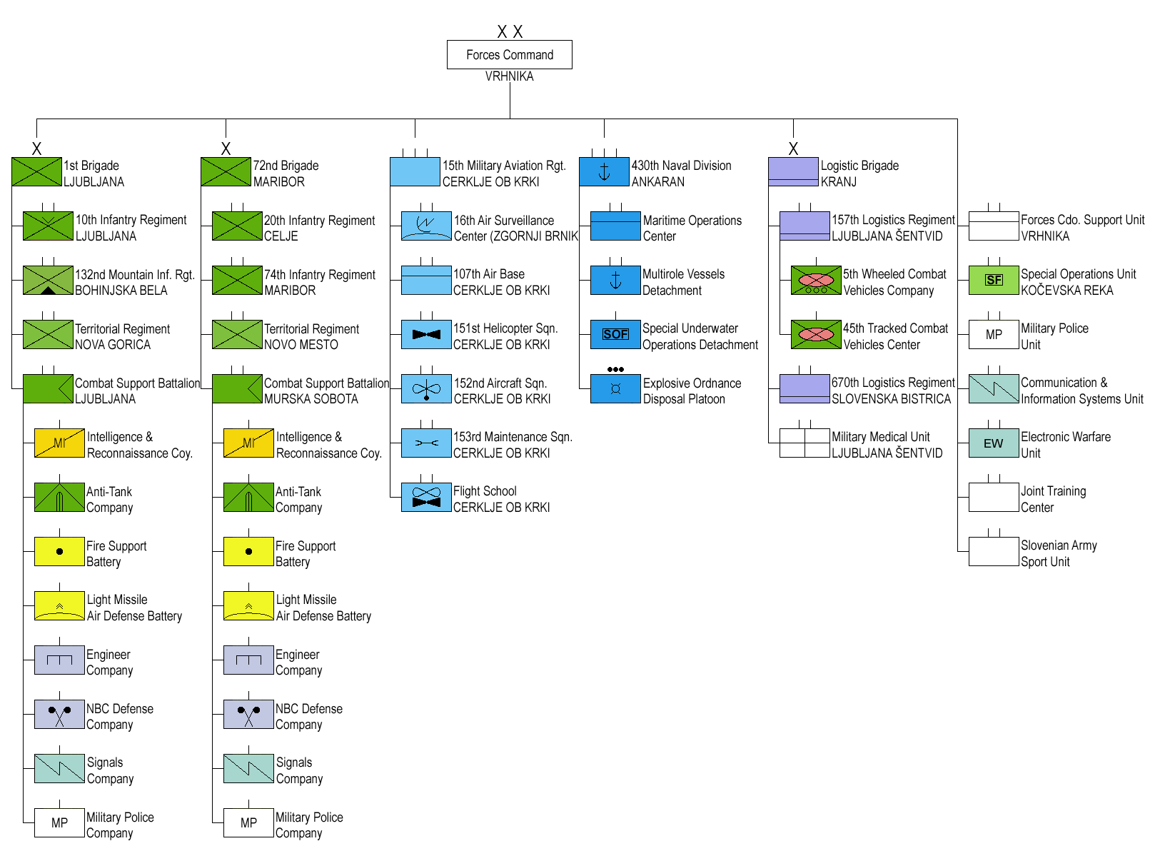 Structure of the Slovenian Armed Forces since 15 May 2013